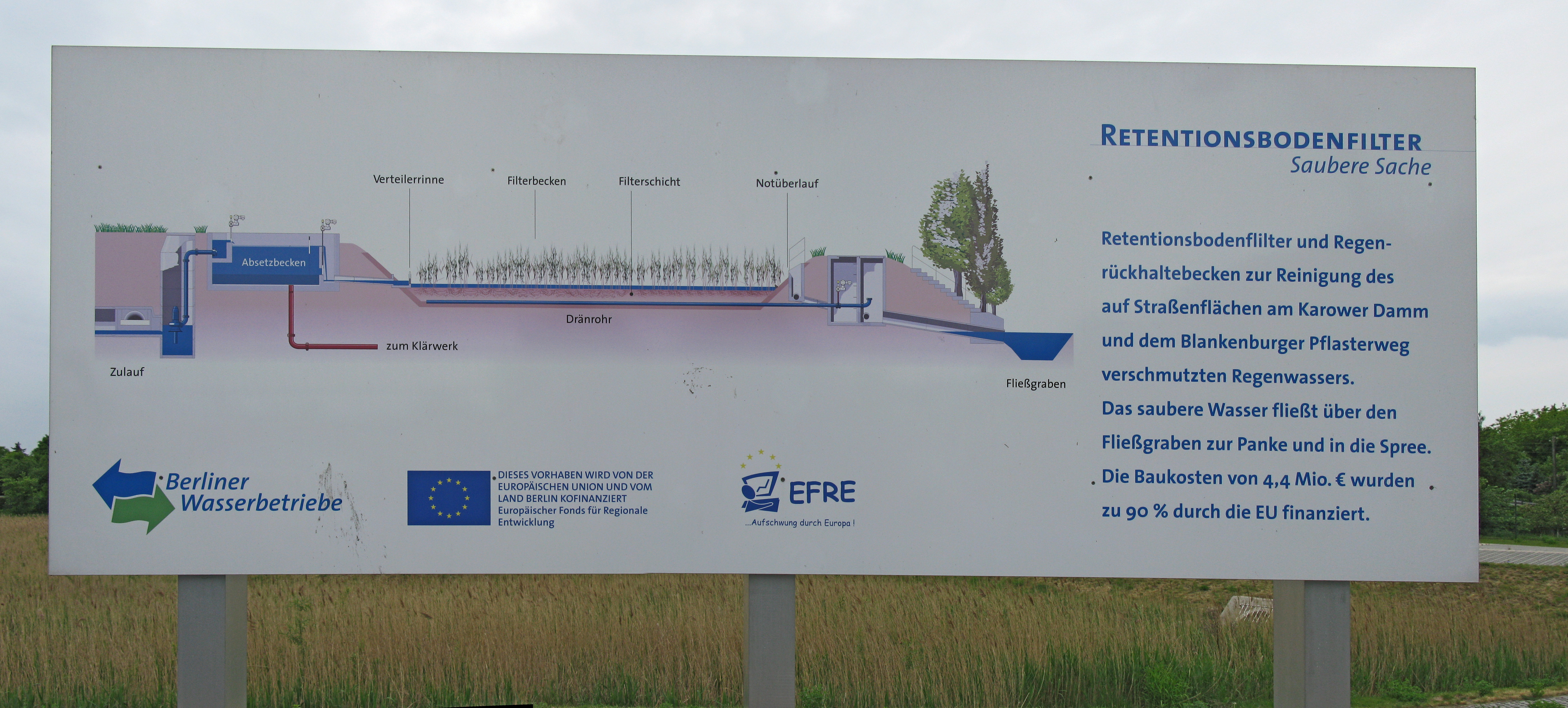 Information panel on a combined detention basin and soil filter of the Berlin Waterworks.